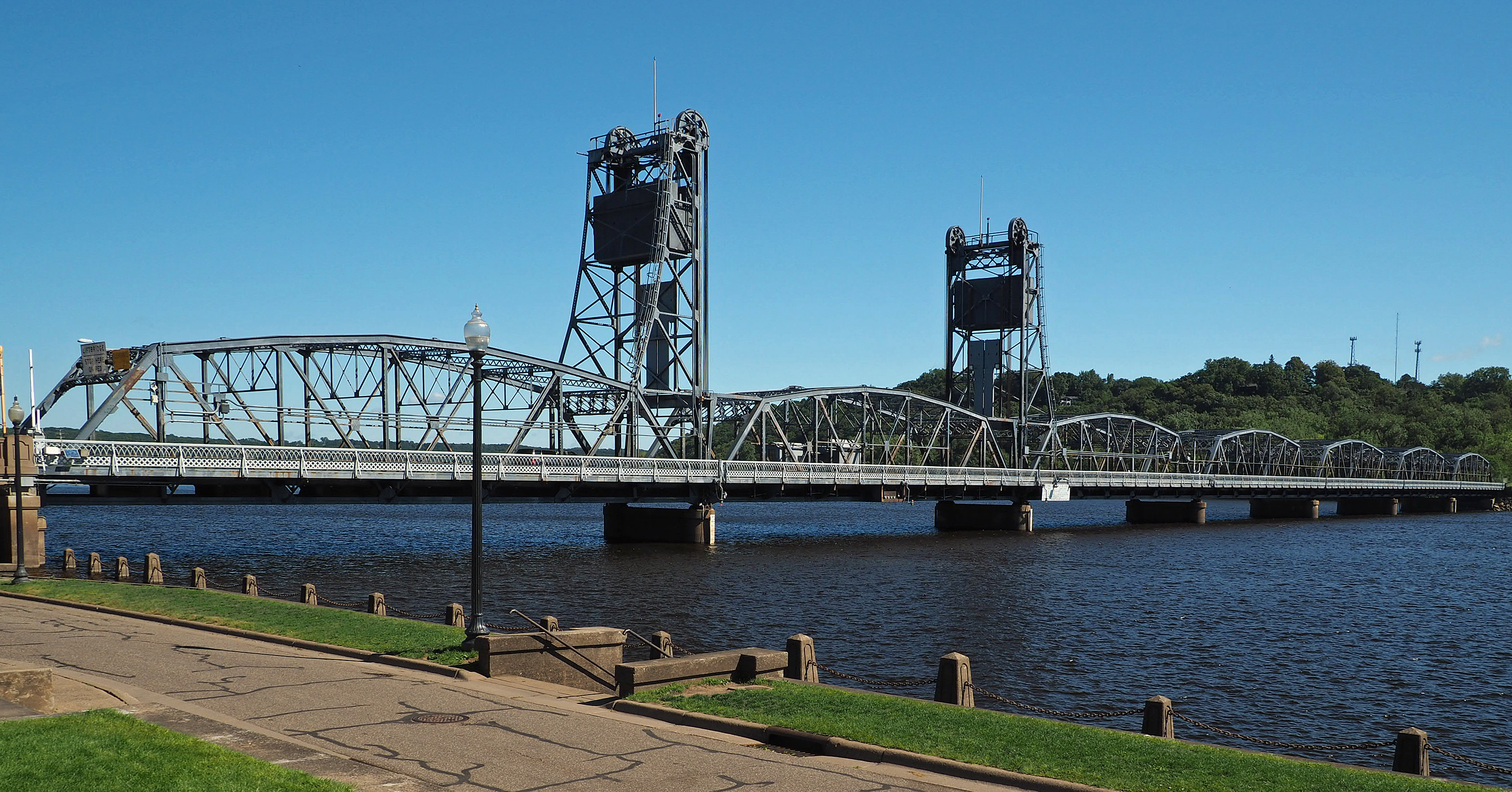 Stillwater Bridge, Stillwater, Minnesota, USA. Viewed from the southwest.